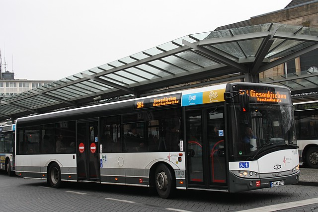 Solaris Urbino 12 bus (#1013, reg. MG-YS 1013, built 2010) of the Niederrheinische Versorgung und Verkehr AG (NVV) from Moenchengladbach, here at the Station Moenchengladbach.